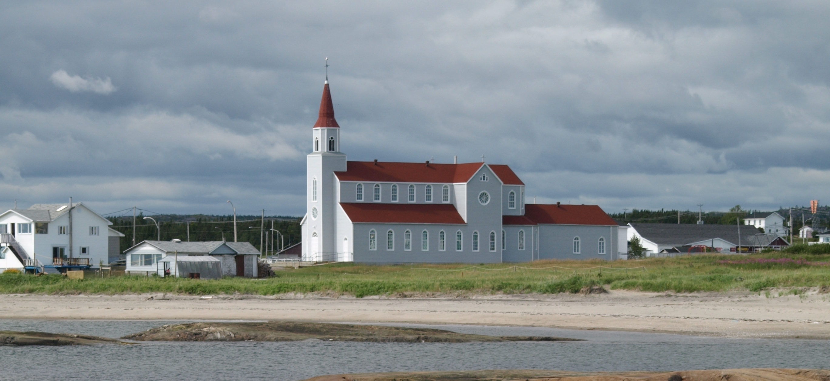 riviere-au-tonnerre church